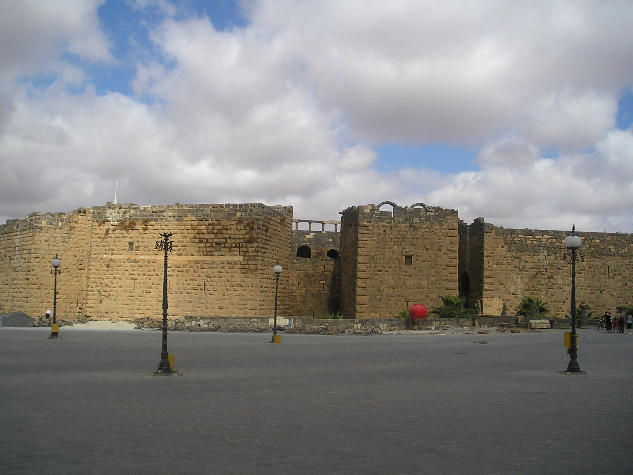 Bosra, Syria - a view of the citadel (the theatre is located inside). From this viewing angle you at least can't see a large portrait of Bashar al-assad above the main entrance.